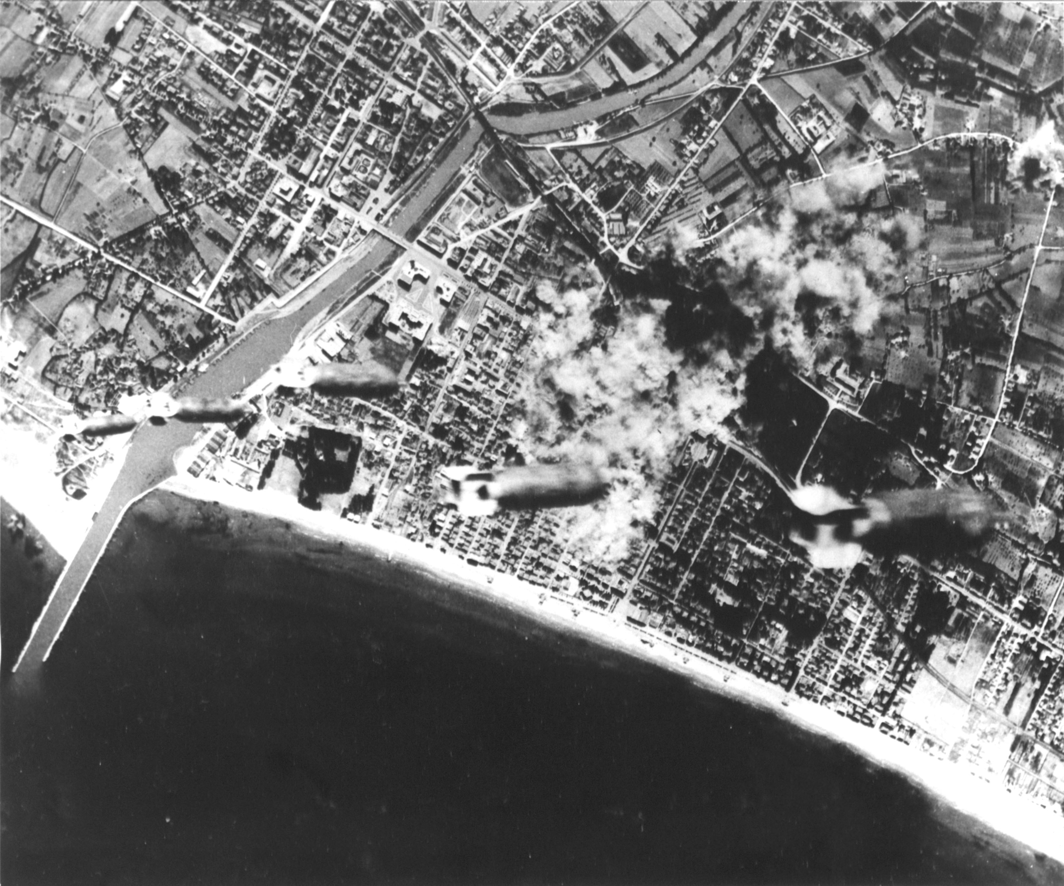 bombardamento pescara